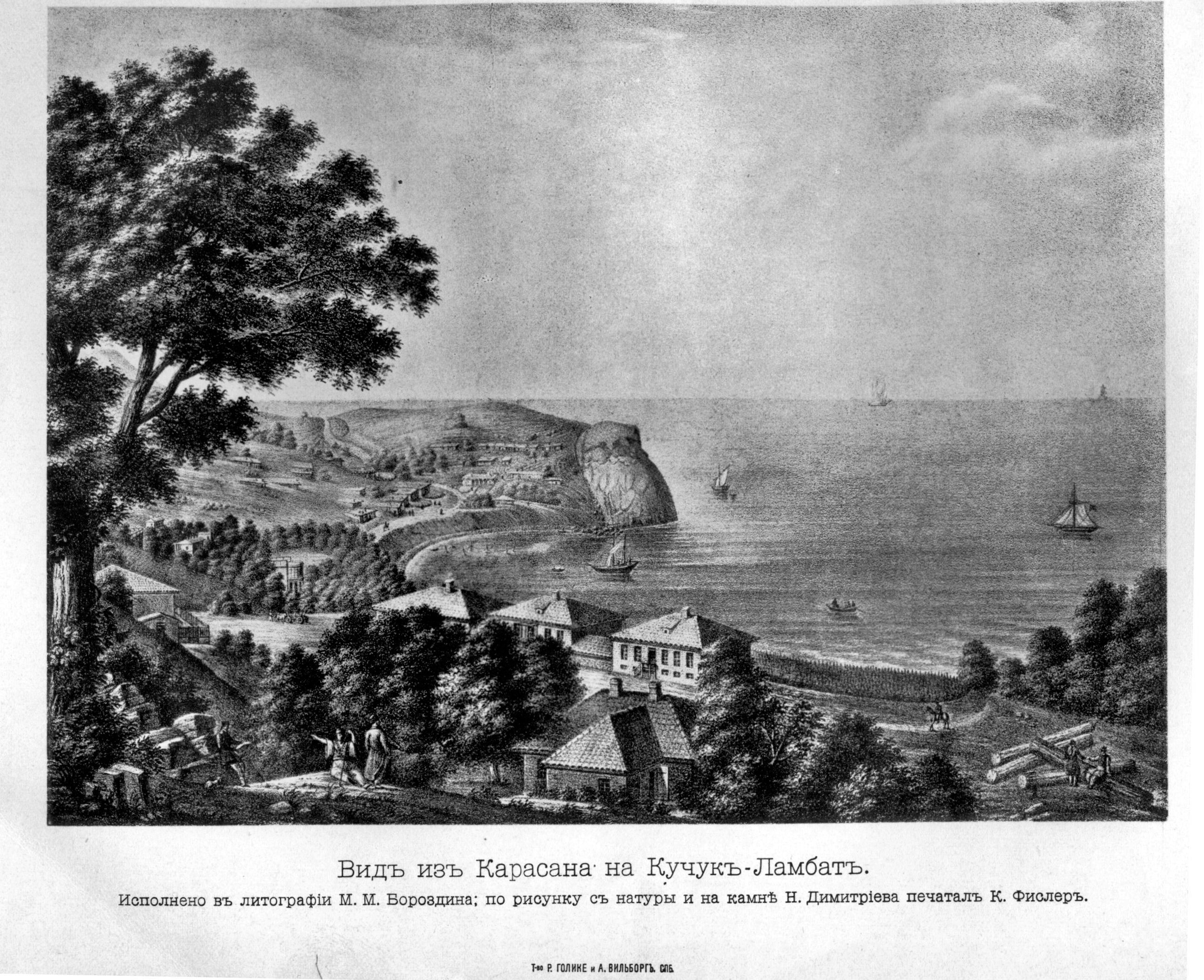 View of Kuchuk Lambat of Karasan. Crimea. 1830